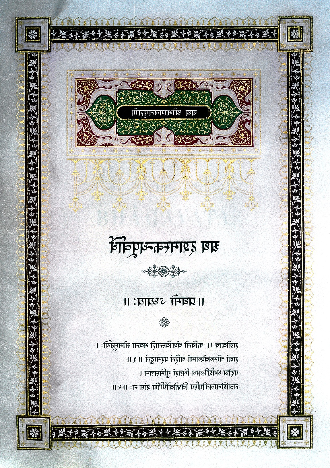 Titlepage of book 10, Sanskrit Wellcome Images